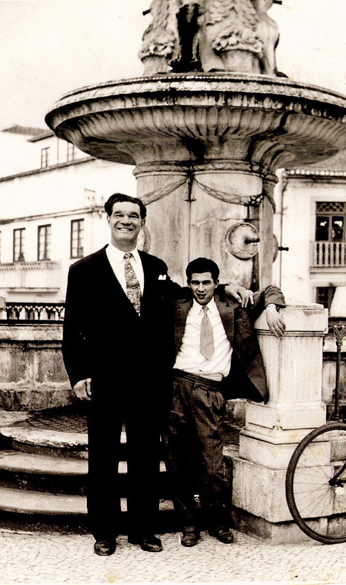 Santa Camarão with a childhood friend in Ovar, Portugal, where he returned after retiring from boxing and stayed until his death